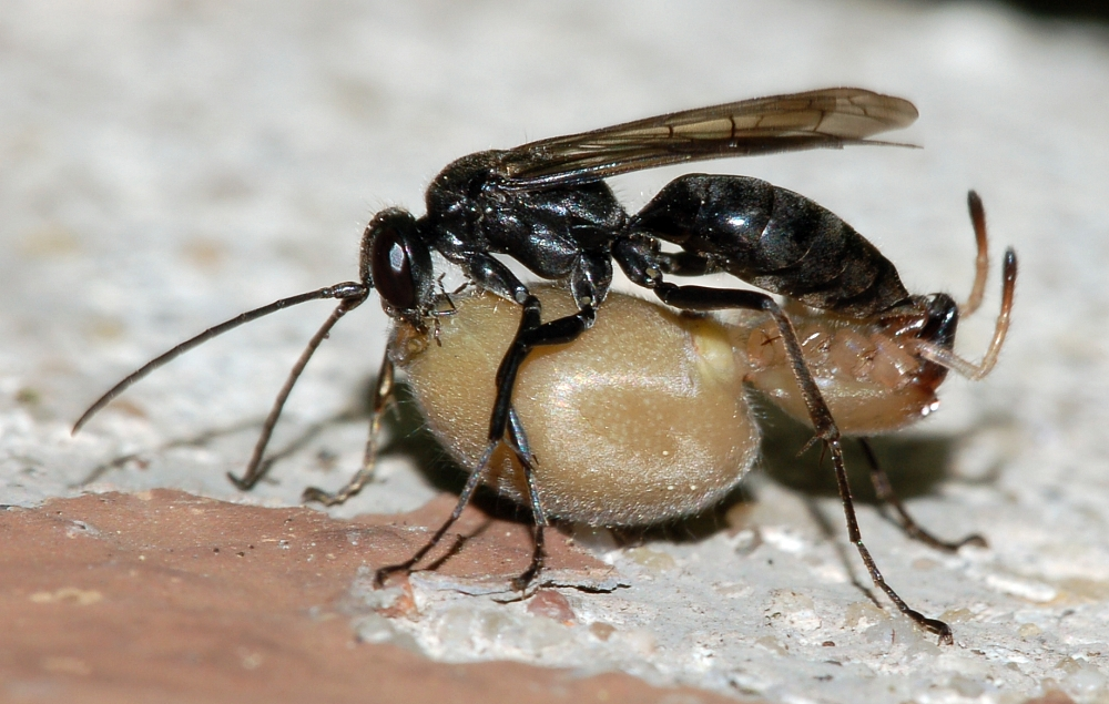 Auplopus carbonarius, Pompilidae, Spider wasp, Wegwespen, Nied, Frankfurt am Main, Germany